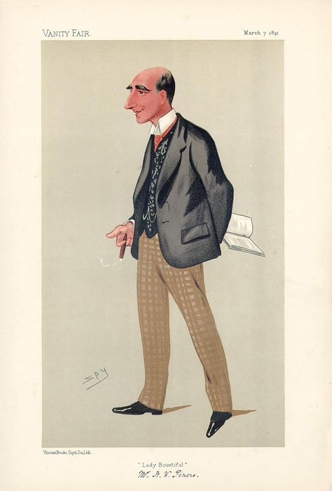 Caricature of Arthur Wing Pinero. Caption read "Lady Bountiful".